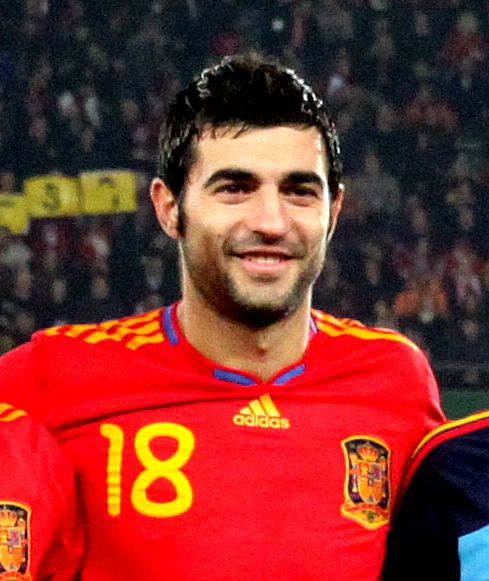 Spain national football team at 2009-11-18 in Vienna (Ernst-Happel-Stadion) vs. Austria national football team (5:1) → For the names of the players move the mouse over the photo.